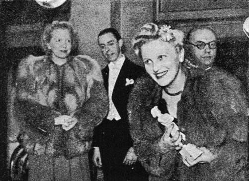 Jussi Award in 1944. Ansa Ikonen received Jussi for Best Actress. In the background (from left) Annikki Arni, Carl-Erik Creutz and Raoul af Hällström.